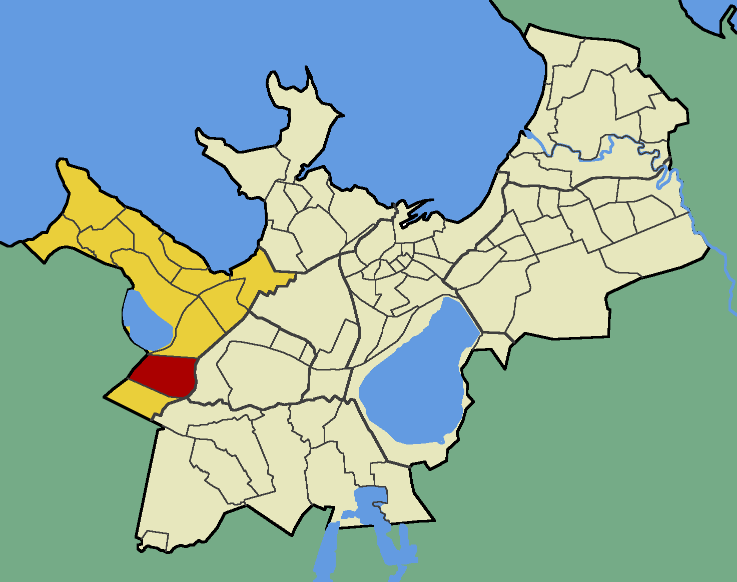 Map of Tallinn (Estonia) with borders of the quarters, Haabersti district and Astangu quarter emphasised